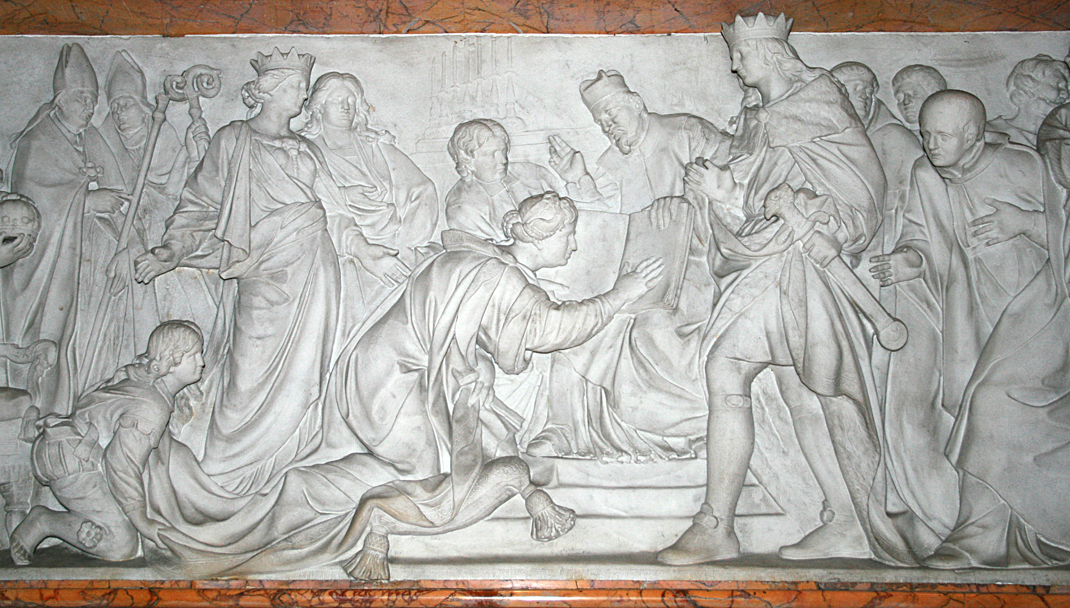 Detail of the relief adorning the tombstone of Queen Christina of Sweden, St. Peter's Basilica, Vatican (1702) - Work of Fontana Carlo (1634 or 1638-1714).